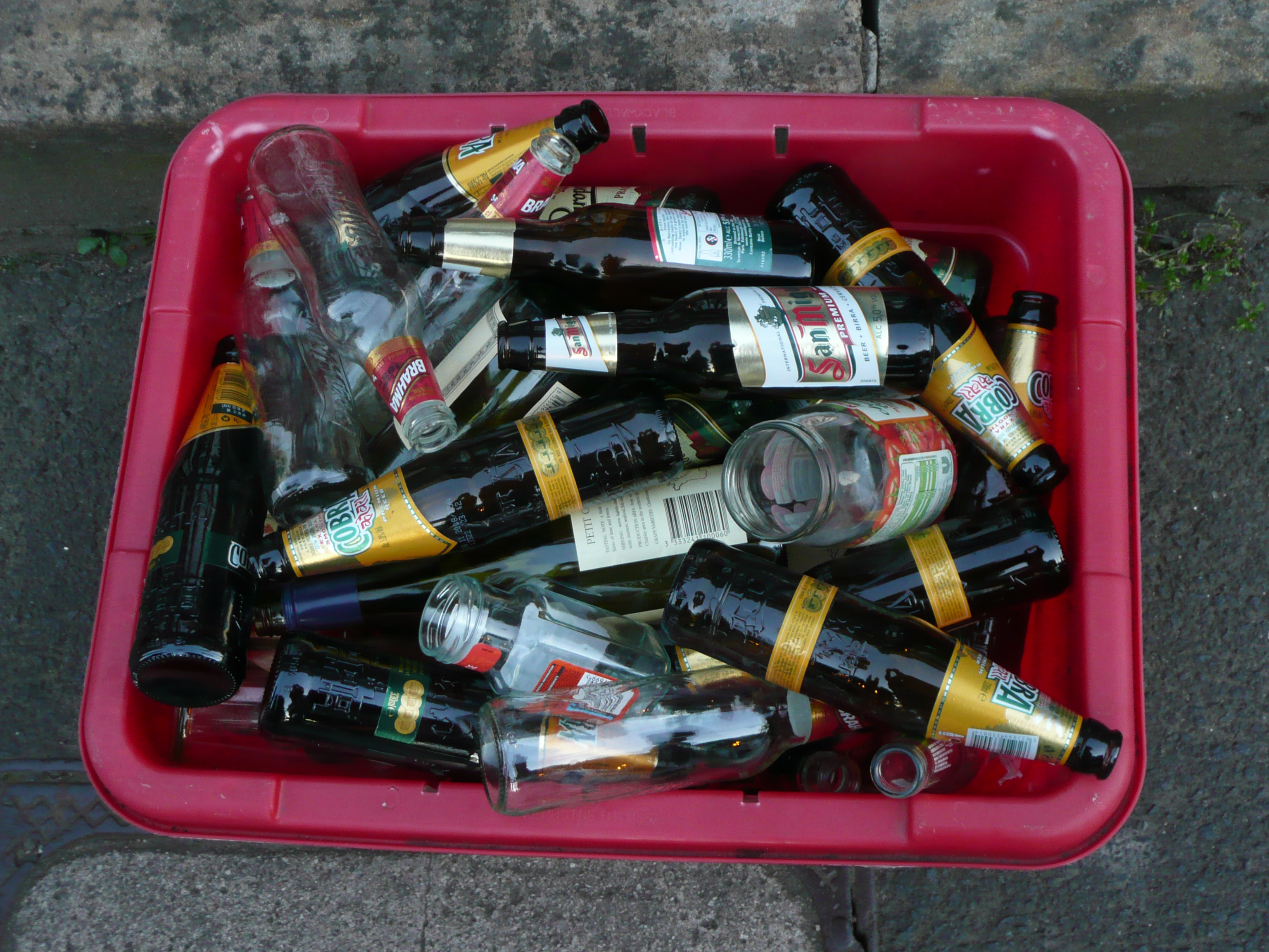 Photographs from Edinburgh, Scotland